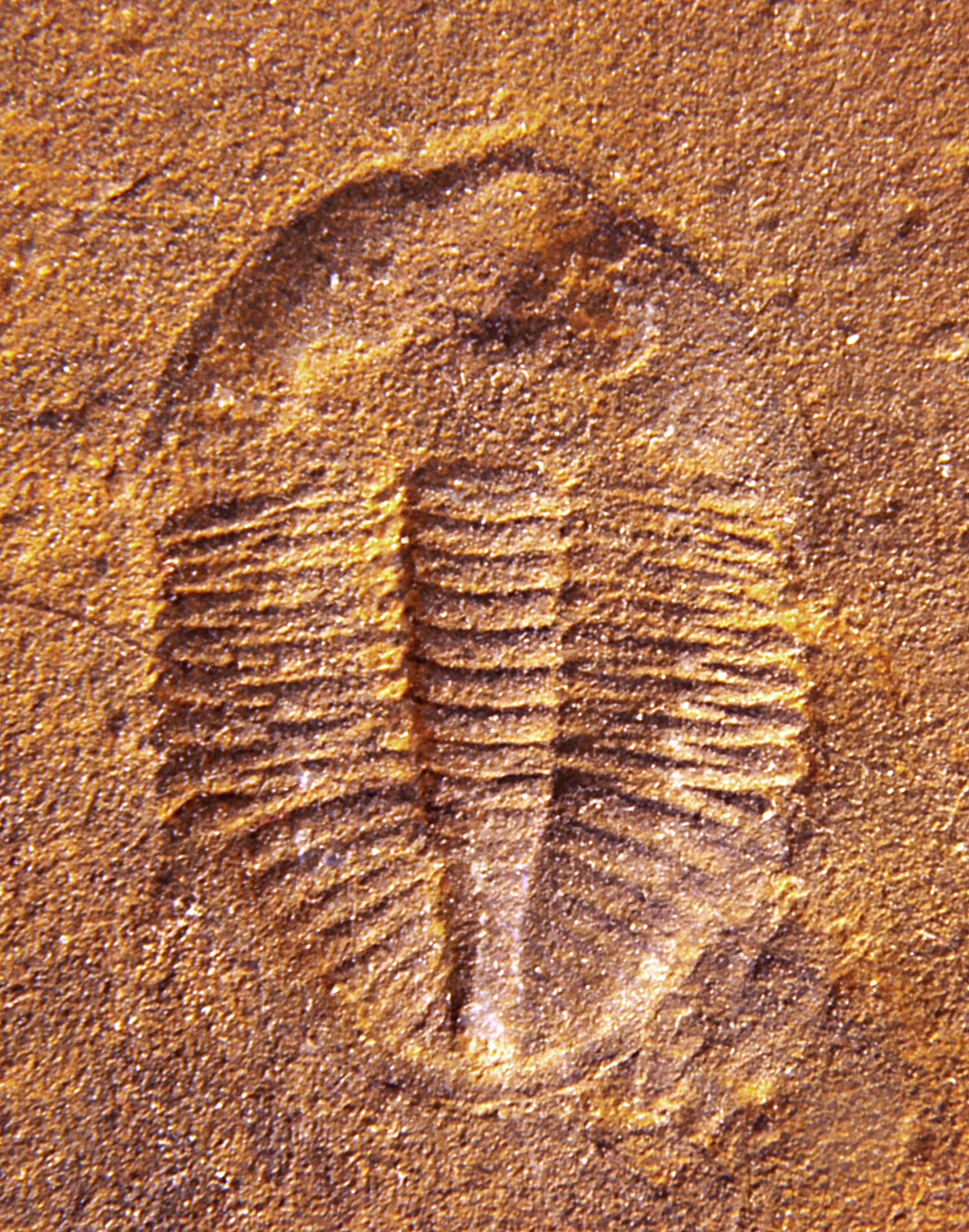 Positive inprint of a specimen of the trilobite Ogygiocarella debuchii, 28 mm long, family Asaphidae, order Asaphida, collected in Wales, from the Middle Ordovician